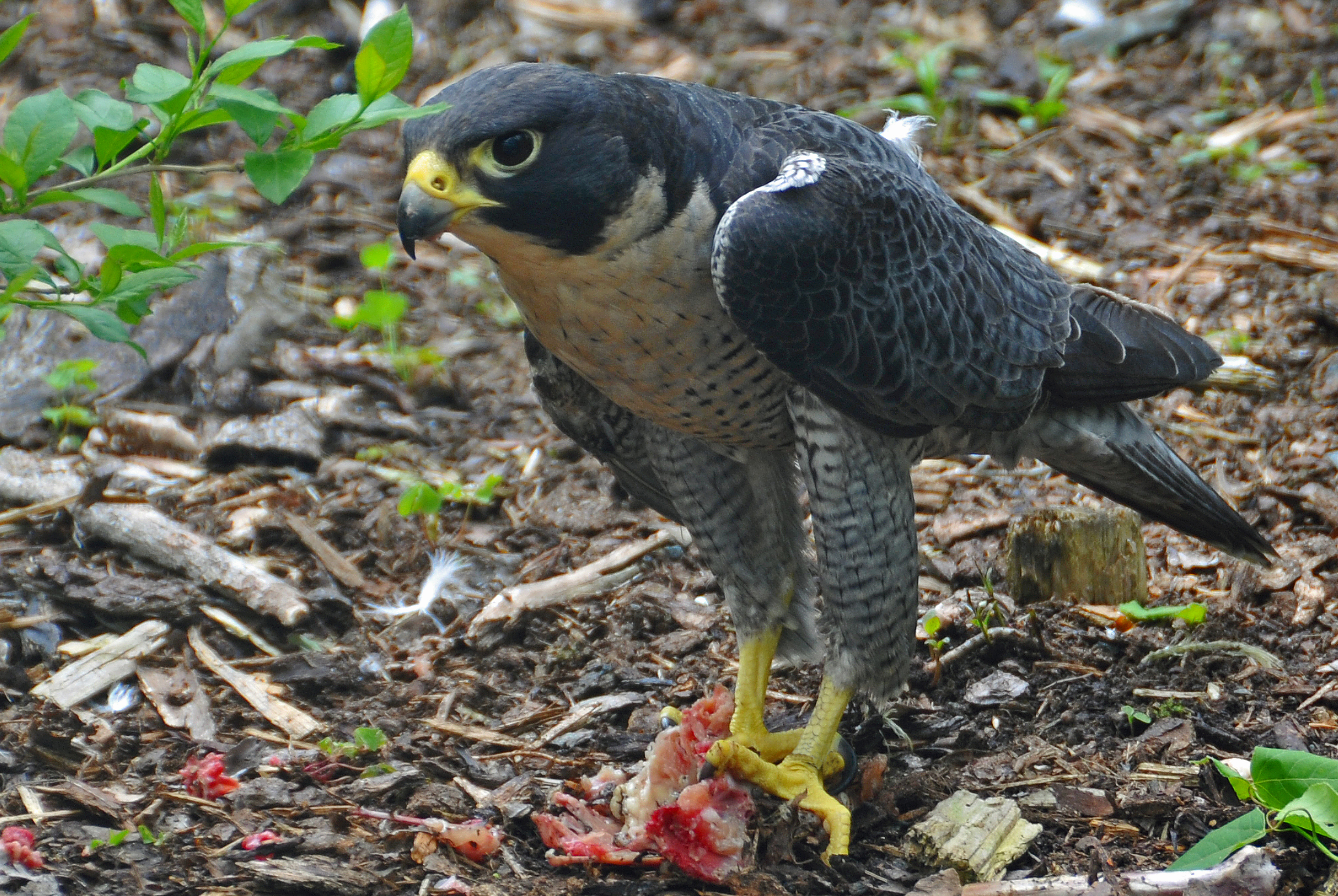 A captive Peregrine Falcon eating at Shubenacadie Provincial Wildlife Park in Nova Scotia, Canada.